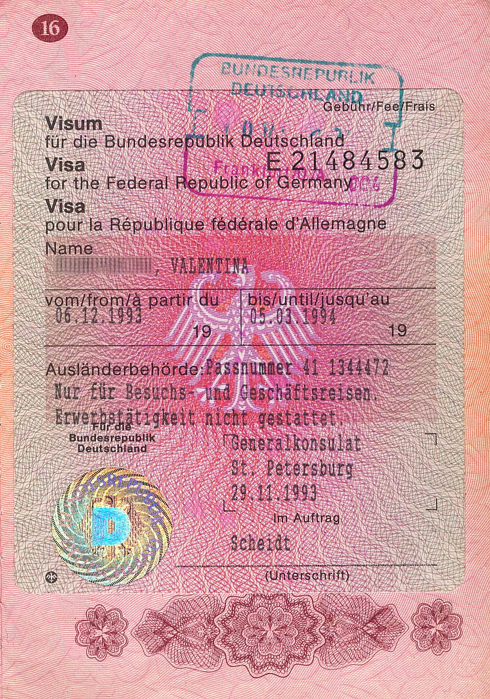 German visa with German entry control stamp from Frankfurt (Oder) attached, 1993